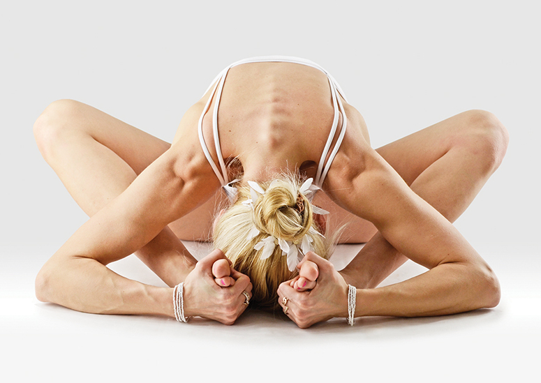 Mr-yoga-star-pose, Tarasana, a forward-bending variation of Baddha Konasana